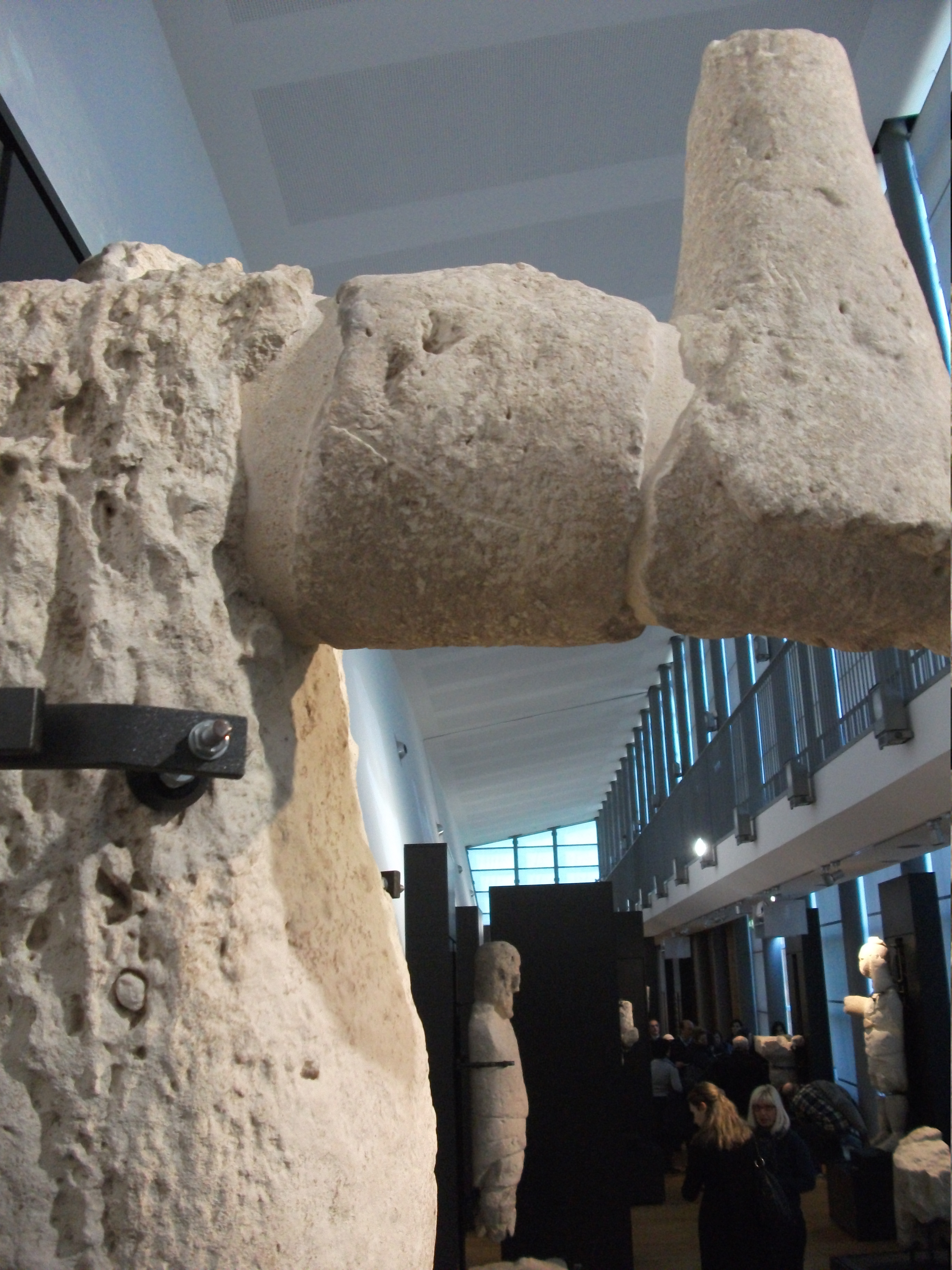 Sculpture, Giant of Monte Prama, boxer, Sardinia, Italy, Nuragic civilization,archaeology, bronze age, prehistory, sea peoples